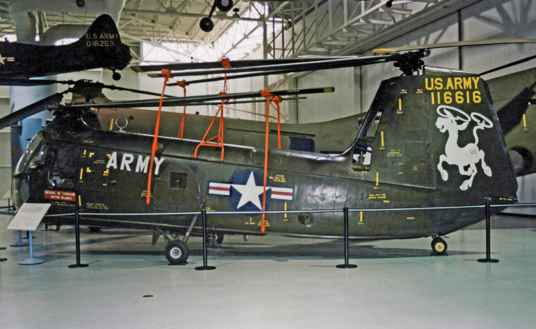 US Army H-25A Army Mule preerved at the US Army Aviation Museum at Fort Rucker Alabama